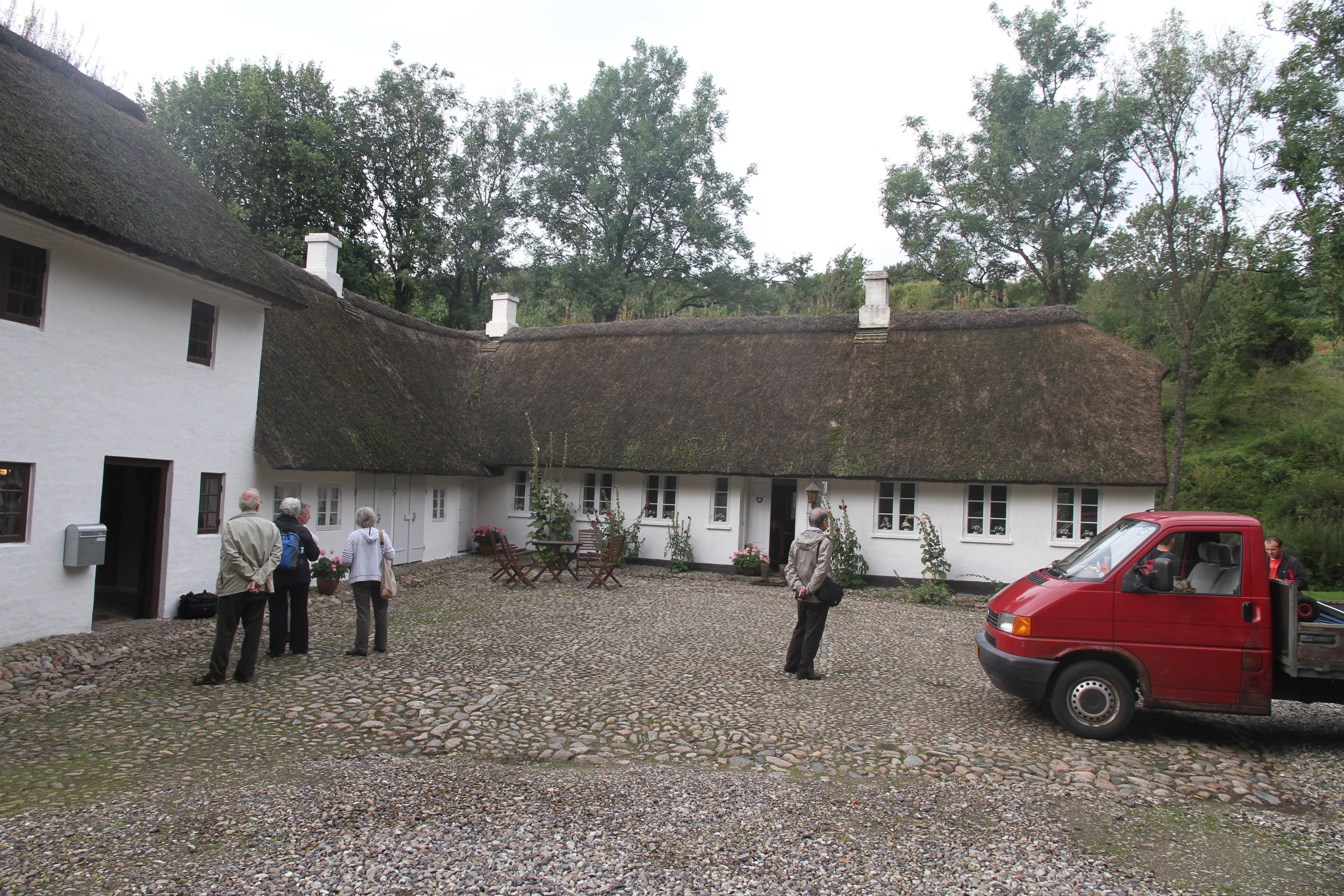 Pictures taken during the tims congress september 2011 Hjerritsdal watermill